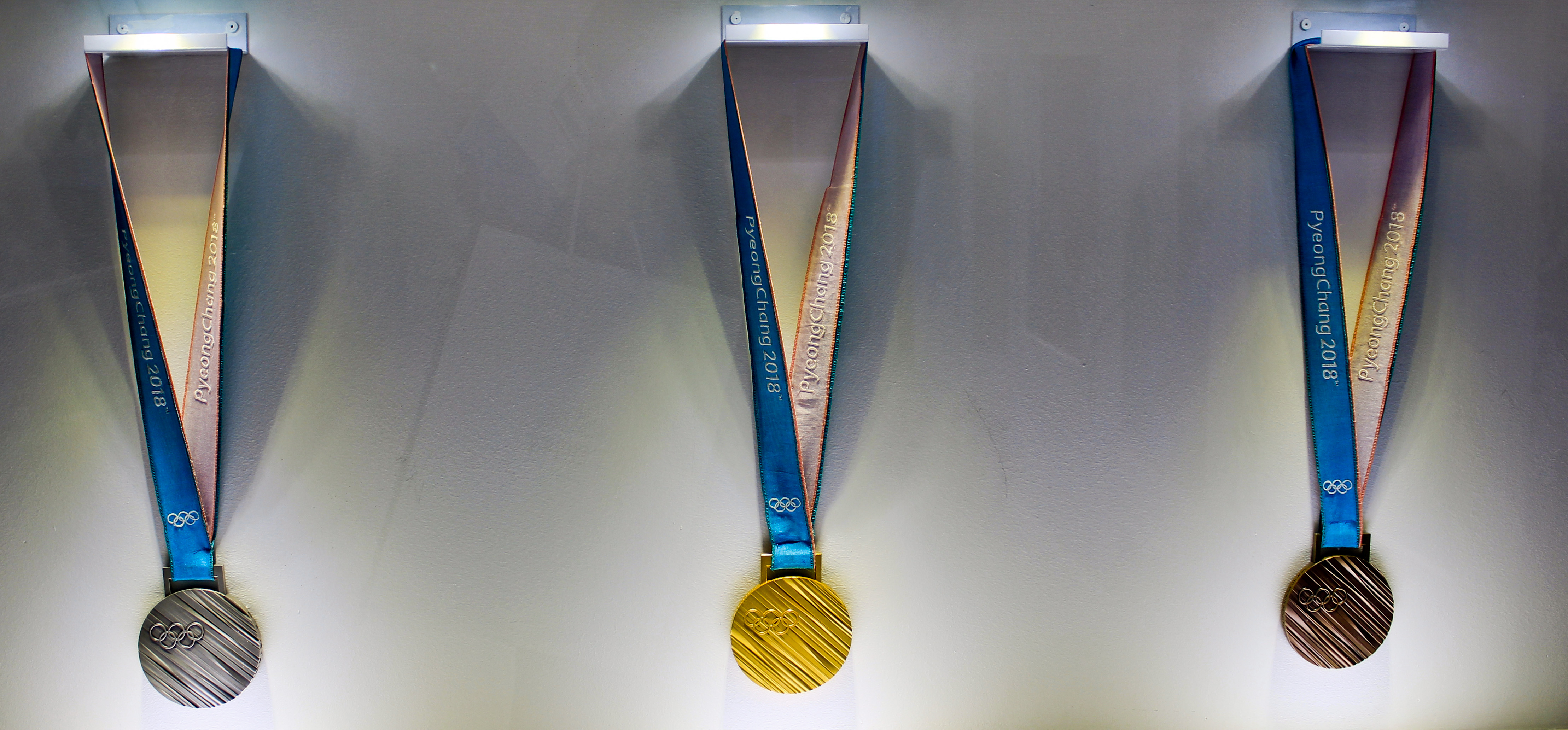 2018 Winter Olympics medal